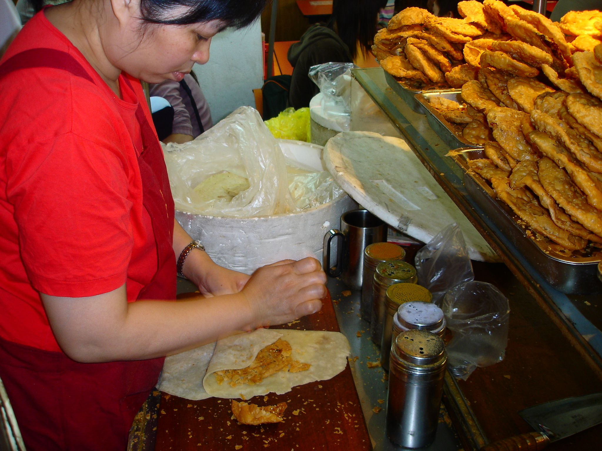 A kind of snack in Shihlin Night Market (大餅包小餅)